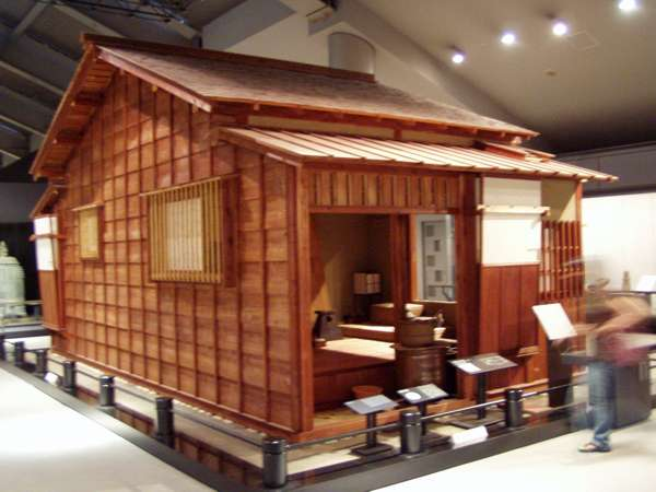 Edo. Typical terraced house (model in Edo-Tokyo Museum)